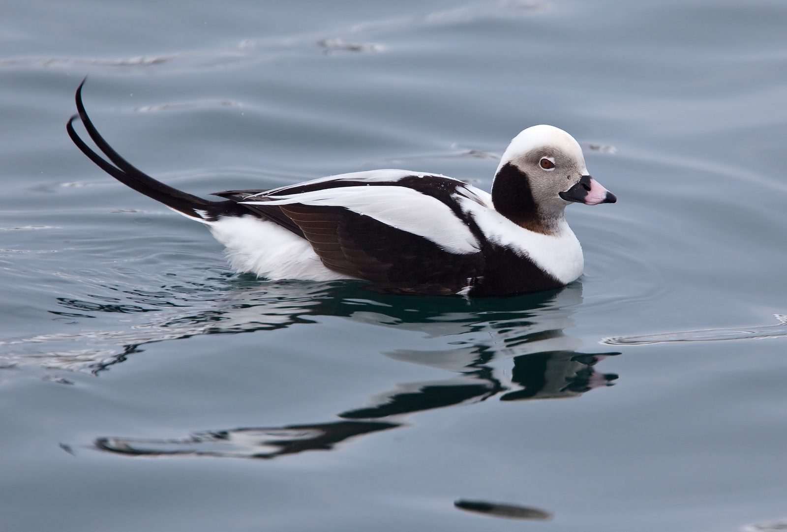 An adult male Long-tailed Duck in Hokkaido, Japan.